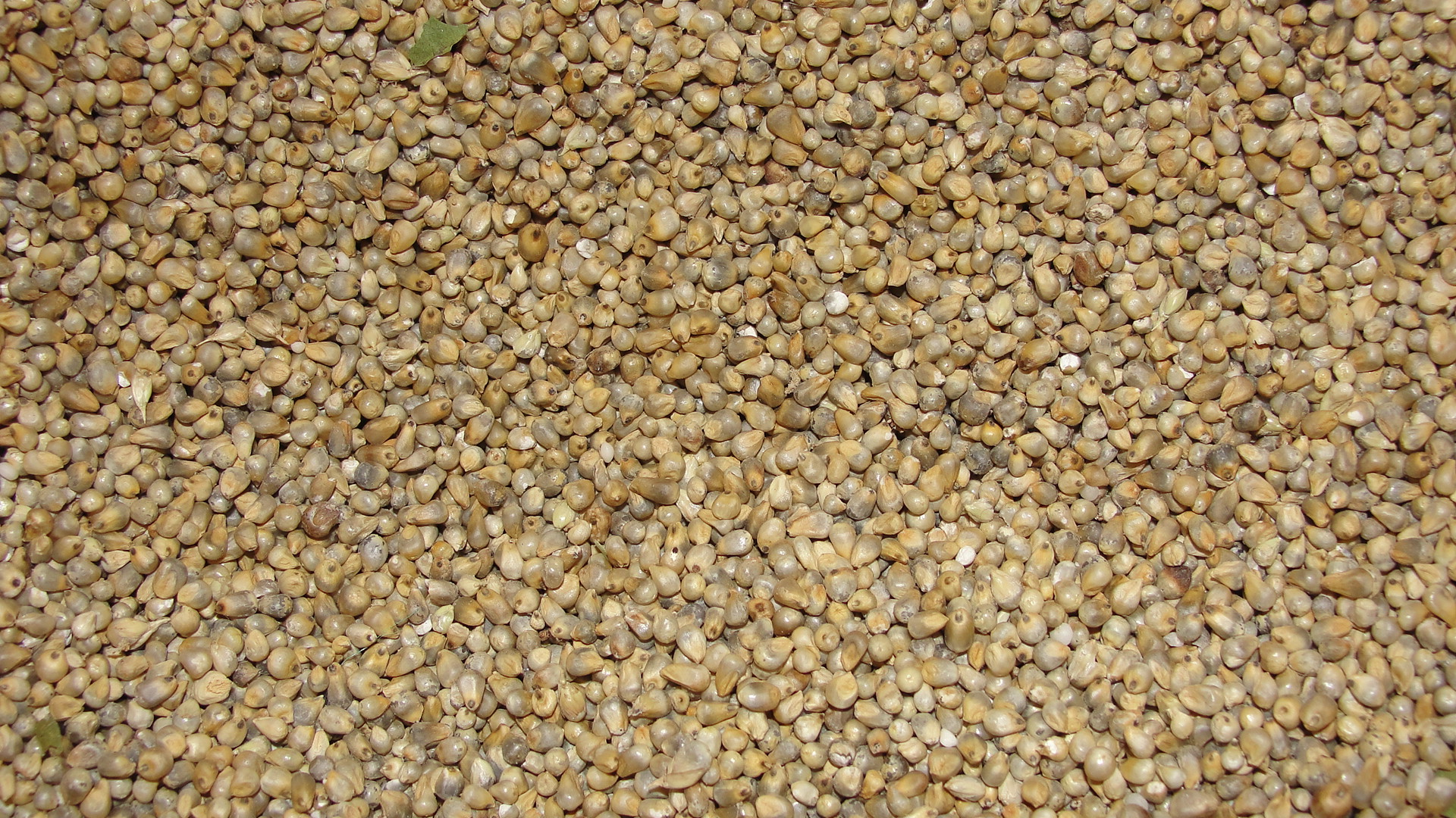 A closeup of Pearl Millet (Cumbu)